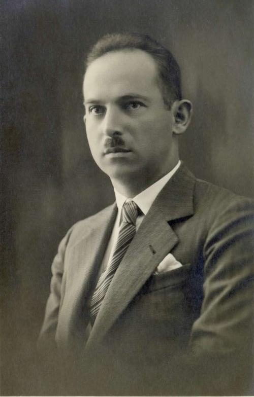 Milko Kos (1892-1972), Slovene historian and academic.